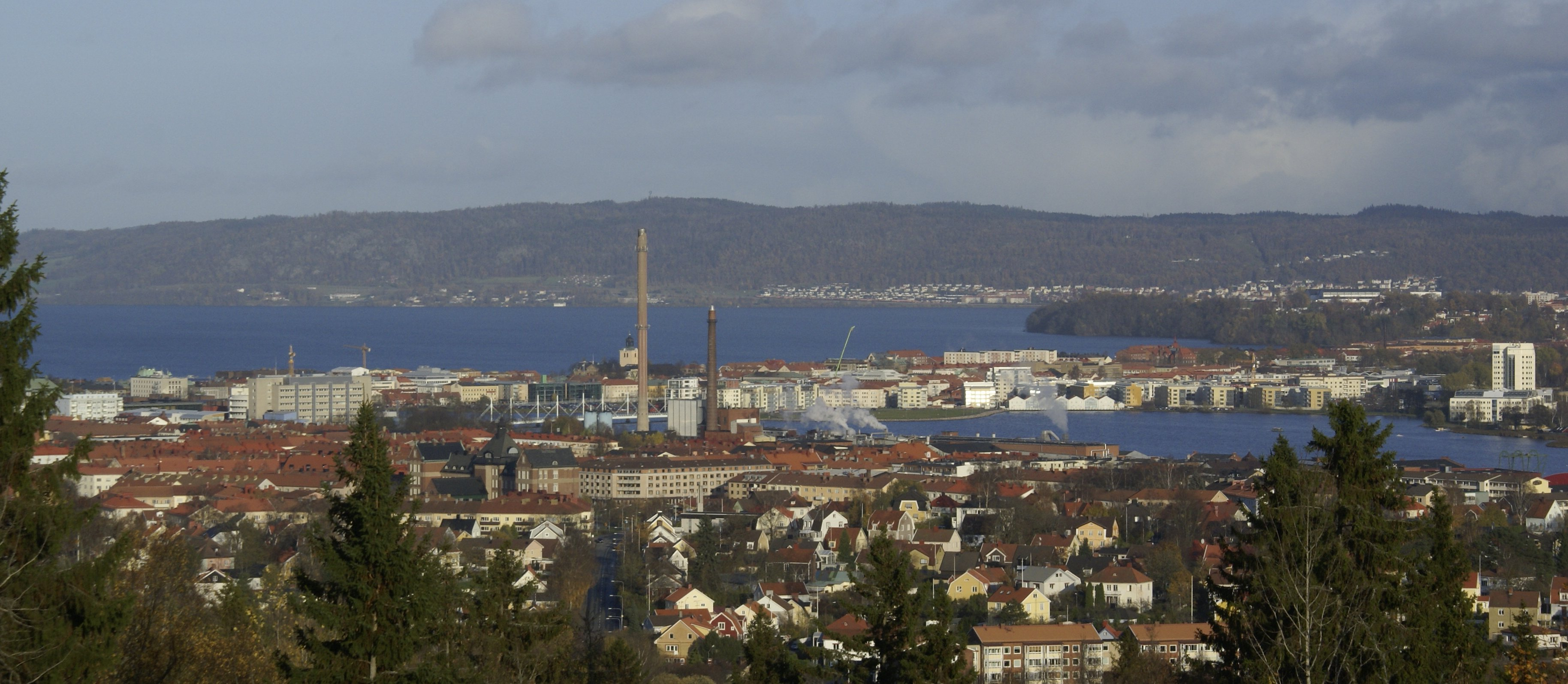 Jönköping from Vattenledningsparken